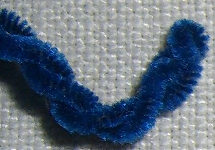 Silk chenille yarn, early 20th century